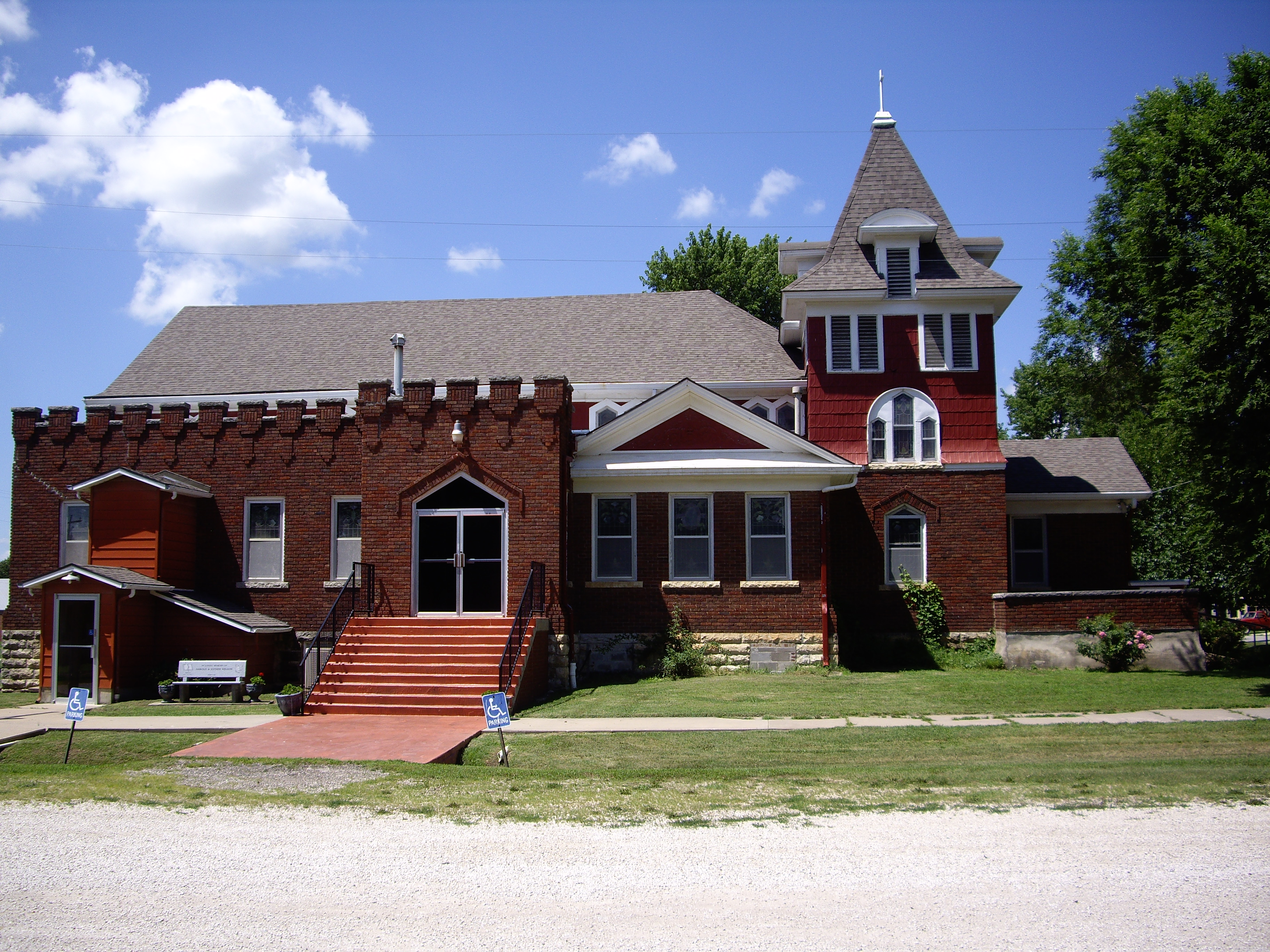 Burns United Methodist Church, 108 Washington Ave, Burns, Kansas, 66840, USA. Looking north. Photo by Steve Meirowsky on July 10, 2010.